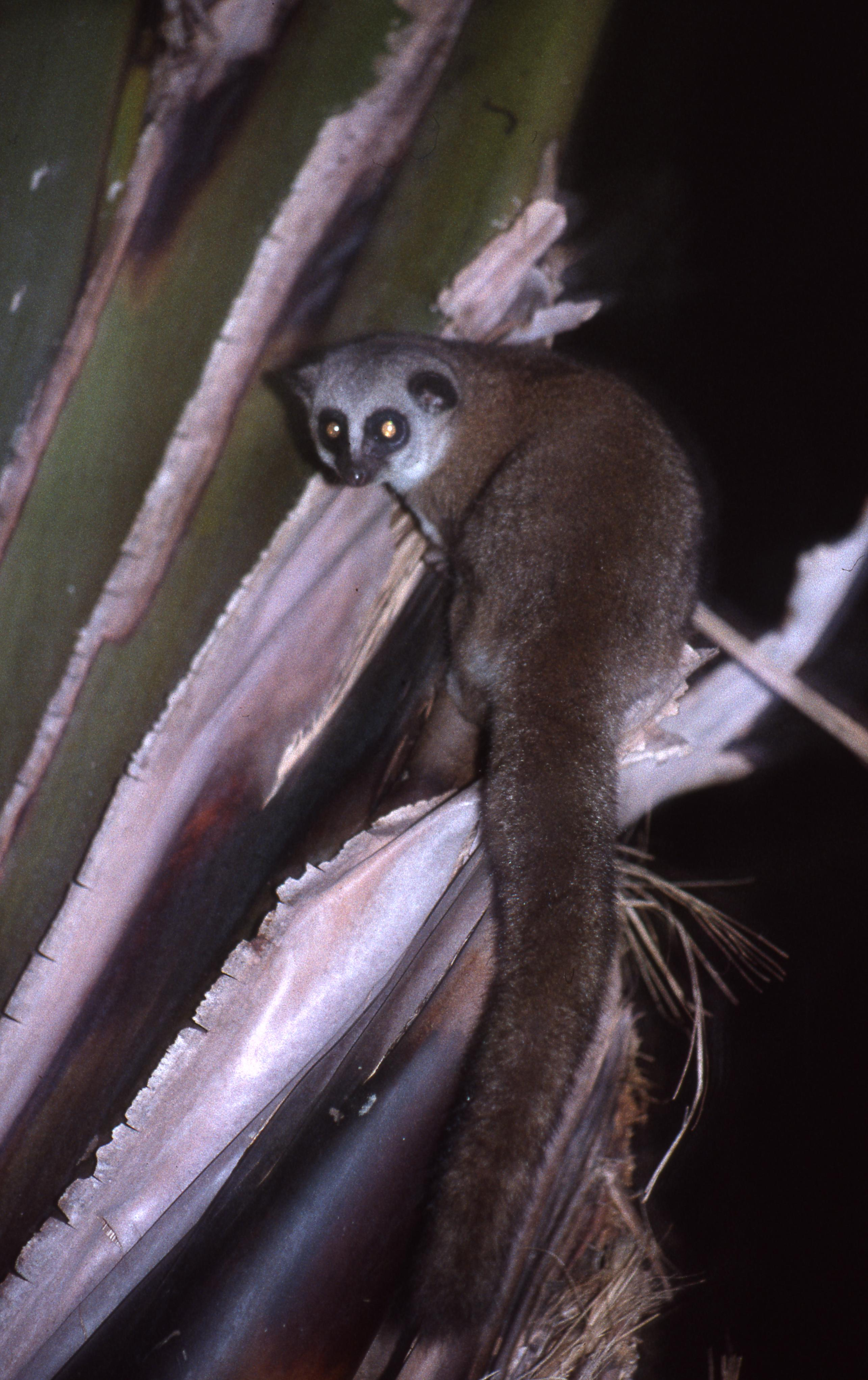 Greater Dwarf Lemur (Cheirogaleus major) - Perinet Reserve, Madagascar